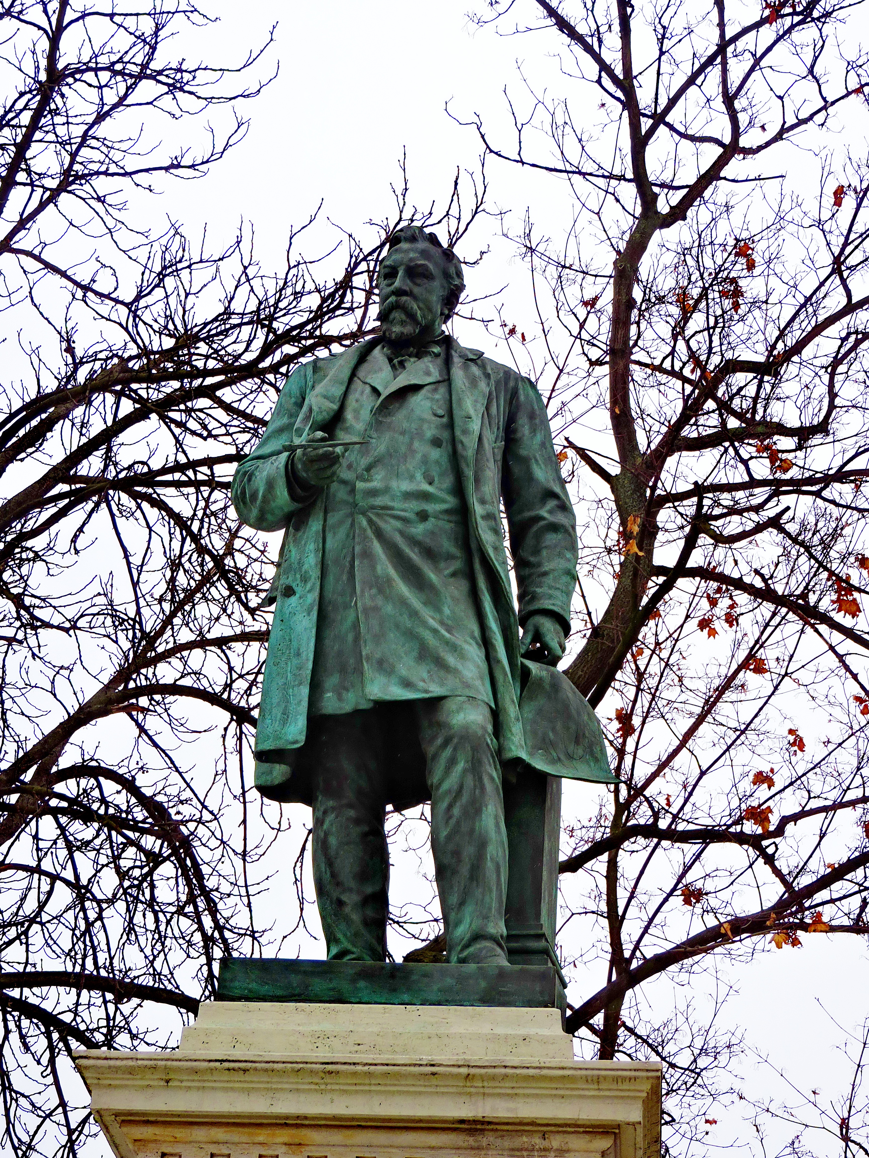 Miklós Ybl, Budapest Miklós Ybl (Hungarian: Ybl Miklós; 6 April 1814 in Székesfehérvár – 22 January 1891 in Budapest) was one of Europe's leading architects in the mid to late nineteenth century as well as Hungary's most influential architect during his career. His most well-known work is the Hungarian State Opera House in Budapest (1875–84). After graduating from the Institute of Technology (the Politechnikum) in Vienna, Ybl became Mihály Pollack's assistant in 1832 and worked in Henrik Koch's office between 1836 and 1840. Following this, he moved to Munich and then to Italy to study. After his return, he entered into partnership with the son of Mihály Pollack, Ágoston; together they refurbished the Ikervár castle of Count Lajos Batthyány. His first main work was the church in Fót, built between 1845 and 1855. His early, large projects were built in Romantic style, influenced by eastern motifs. Although Romanesque shapes also occur in his later buildings, after his second study tour to Italy from 1860 he became interested in the possibility of the revitalisation of the Italian Renaissance style, and designed several neo-Renaissance buildings. Many of his buildings became, and indeed are still today, determinant elements of the cityscape of Budapest: Saint Stephen's Basilica (1867–91), the Rác Thermal Bath, the former Palace of Customs, (1871–74), and the throne room and Krisztinaváros wing of the Royal Palace. He also built countless churches, apartments and castles in the provinces. The annual architectural prize founded in 1953 was named after him in his honor.